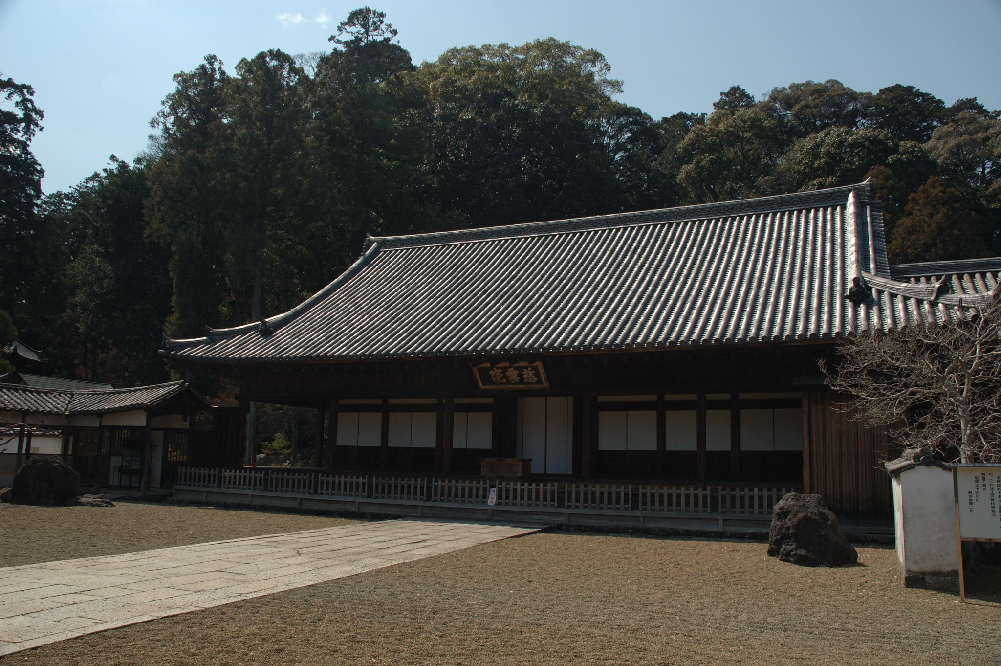 Hondo (Main Hall) of Joroku-ji temple. Tokushima City, Tokushima, Japan (Japan's national important cultural property)